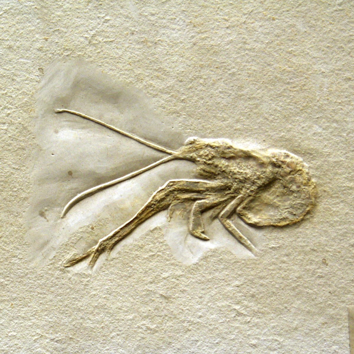 Fossil of Mecochirus longimanatus, from the Solnhofen limestones. Museum für Naturkunde (Berlin). Museum of Natural History Berlin Native nameMuseum für NaturkundeParent institutionBürger schaffen Wissen LocationBerlinCoordinates52° 31′ 48.72″ N, 13° 22′ 45.12″ E Established2 December 1889 Web page control : Q233098 VIAF: 146620974 ISNI: 0000 0001 2293 9957 LCCN: n83179862 GND: 37657-7 SUDOC: 063871335 WorldCat institution QS:P195,Q233098